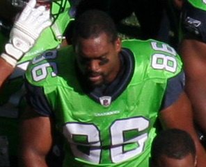 Seattle Seahawks players, 2009